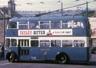 Bradford Trolleybus turning at Thackley Corner. BUT Trolleybus 831 (LHN 781) is turning at Thackley Corner where the A657 (Leeds Road) meets with Town Lane. Route 41 turned round here, although this vehicle was on a private tour.